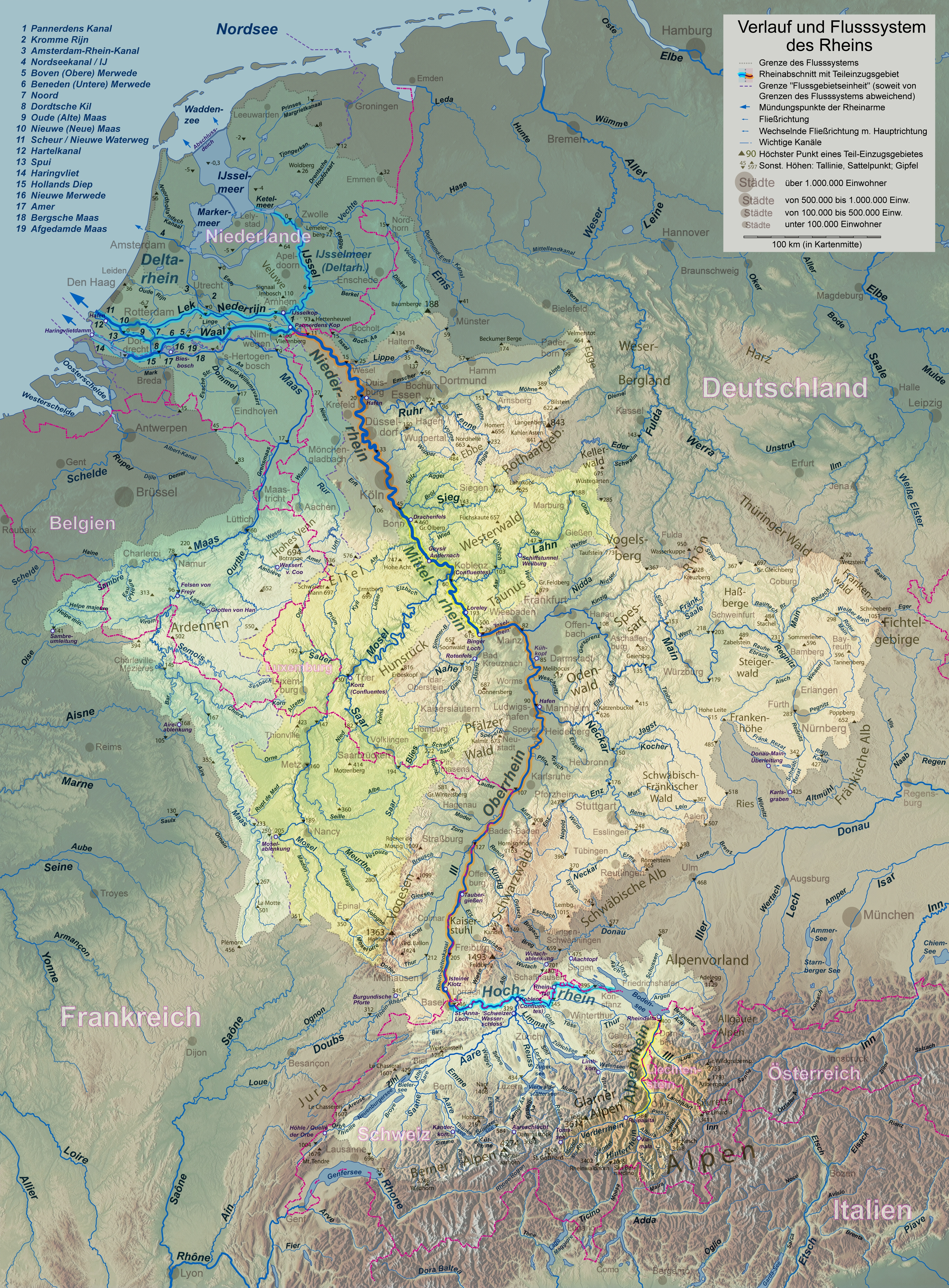 Detailed map of the Rhine system, place names in german